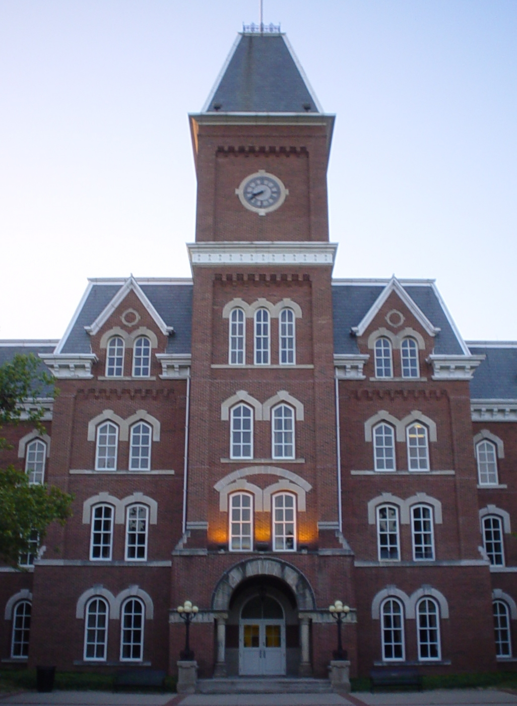 Taken from English Wikipedia. It shows the University Hall of the Ohio State University. Original description: Author: David Himelright, photographed 6/22/05 Original History: (del) (cur) 03:08, 20 November 2005 . .(Author: David Himelright, photographed 6/22/05)